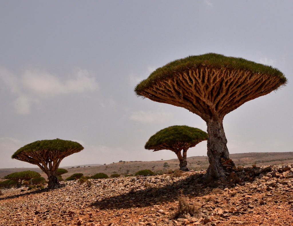 Dragon's Blood Tree (Dracaena cinnabari) — endemic to/on Socotra Island, Yemen.